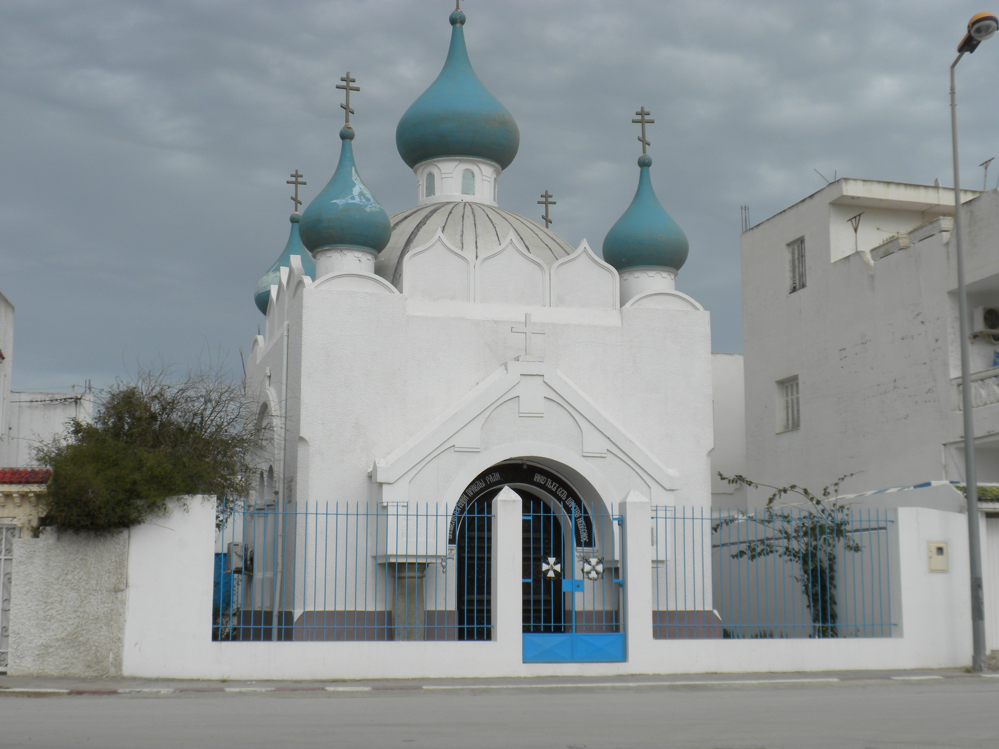 eglise orthodoxe de bizerte orthodox church.